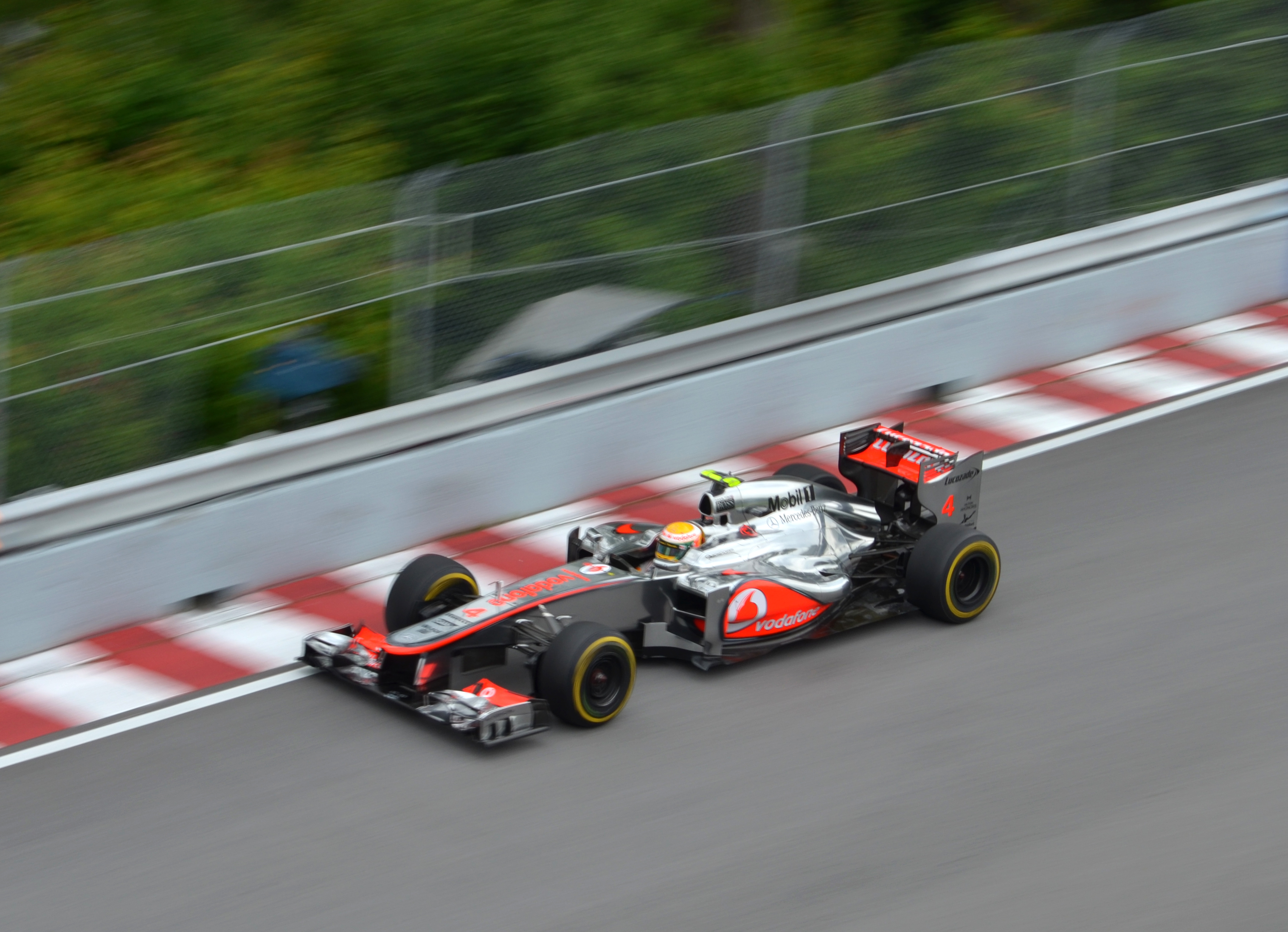 Lewis Hamilton in the McLaren - Mercedes MP4-27 exits turn 9 at Circuit Gilles Villeneuve during first practice for the 2012 Canadian Grand Prix